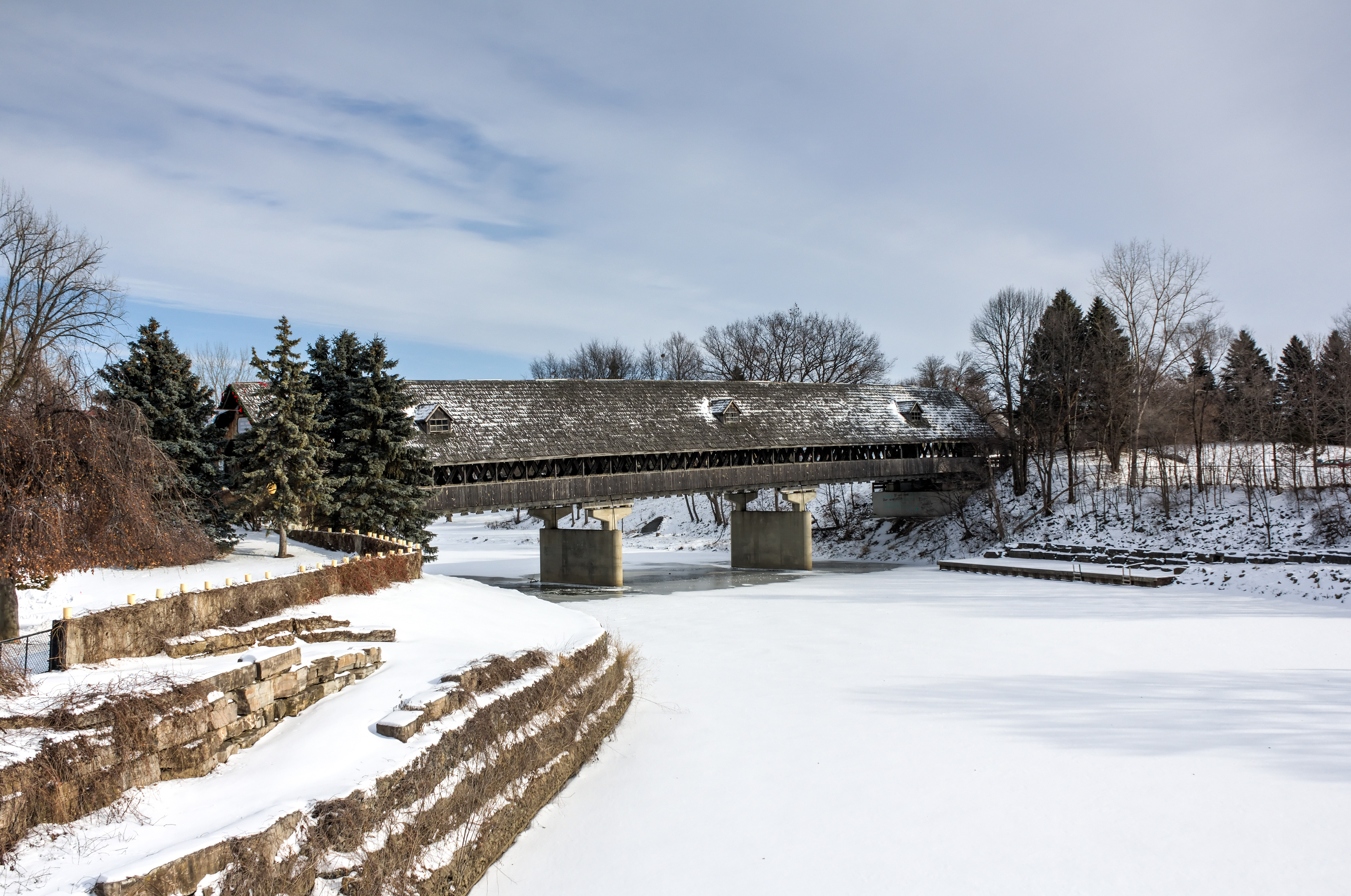 Covered bridge, Frankenmuth, Michigan, 2015-01-11